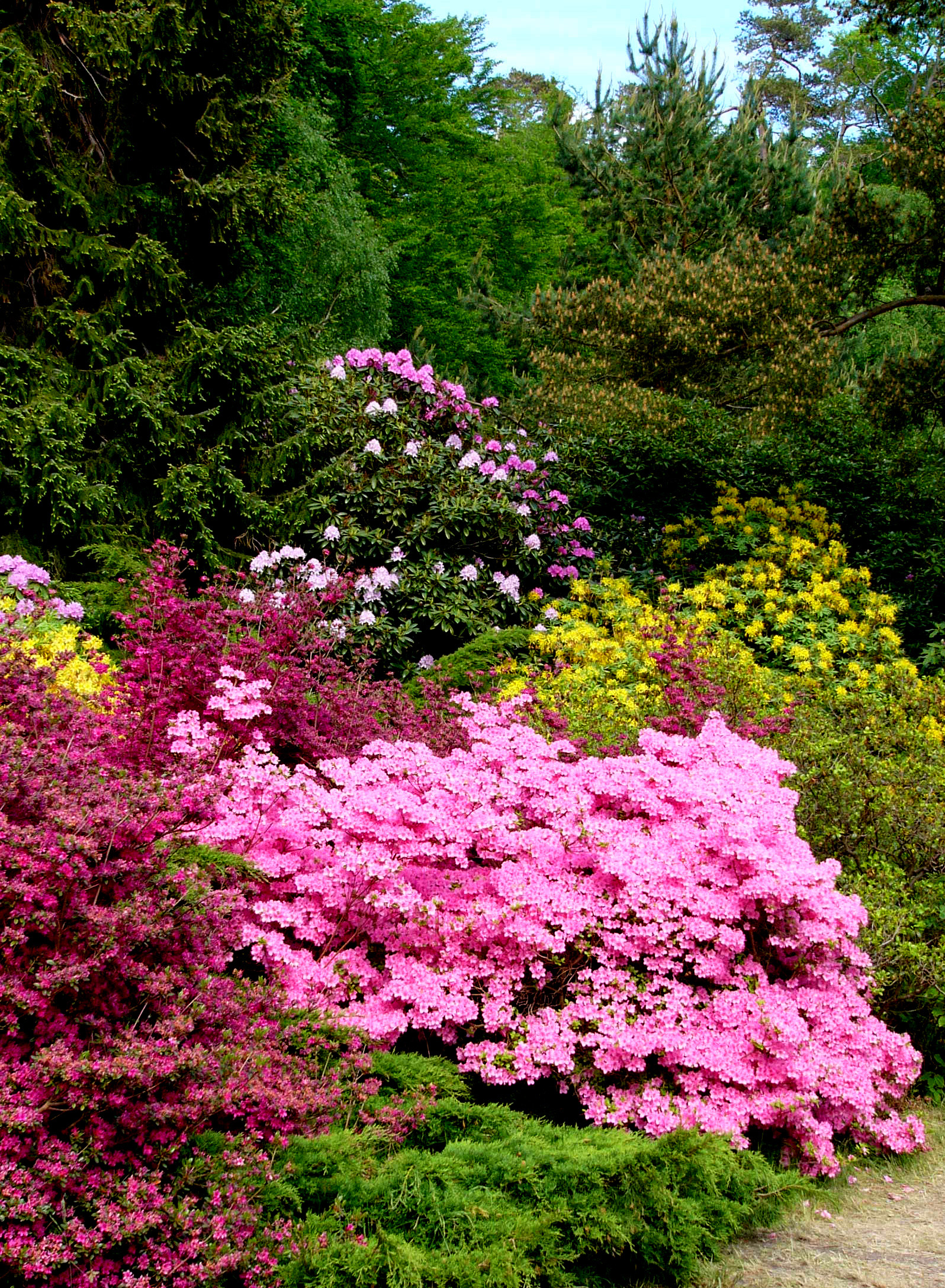 Description: Rhododendron Park in Graal-Müritz, Germany Source: own work Uploader: User:Nikater Date: October 23, 2006 Other Versions: none License status